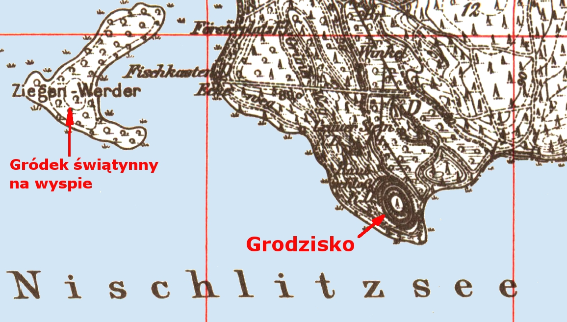 Map of southern part of Niesłysz Lake with gord at Niesulice (grodzisko) and smaller, temple-gord at the island marked